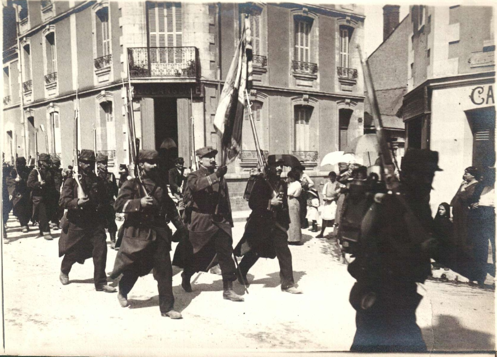 Original print of photograph of the departure of the flag of the 266th Infantry Regiment in August 1914